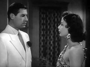 Cropped screenshot of John Hodiak and Hedy Lamarr from the film A Lady Without Passport